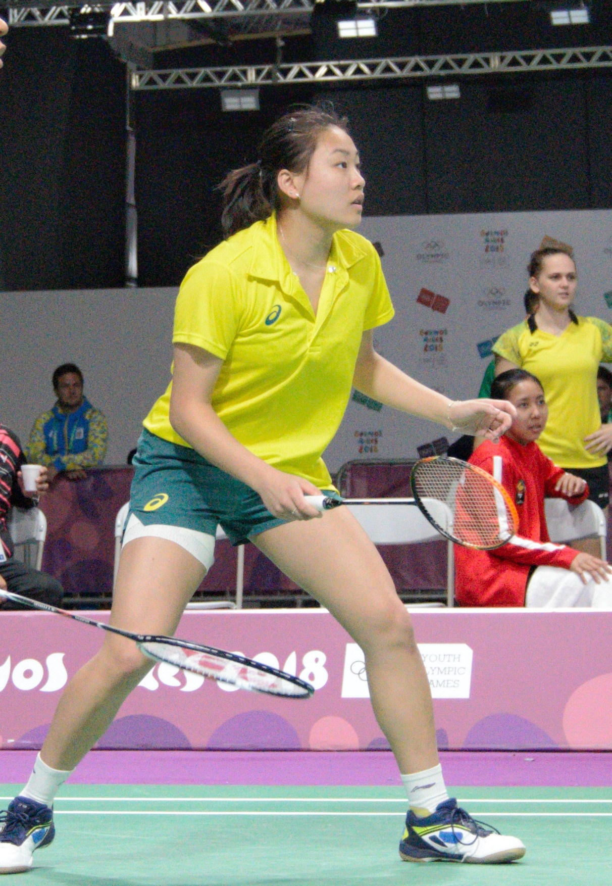 Bronze medal match for the badminton mixed relay team tournament at the 2018 Summer Youth Olympics. Match 6.